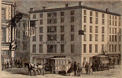 Lovejoy's Hotel, a mid-19th century hotel in New York City, located at 34 Park Row (corner of Beekman)